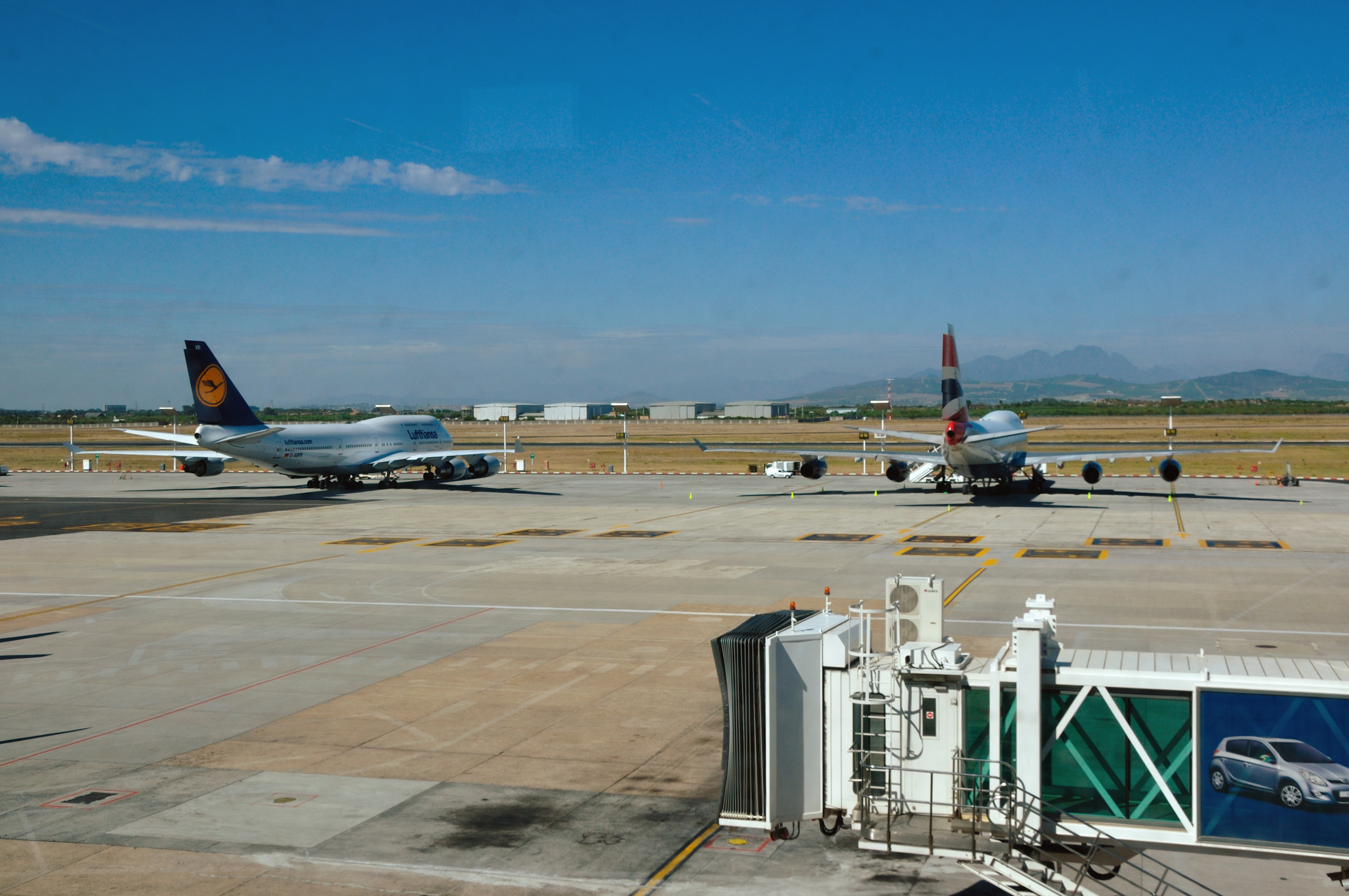 South Africa, spotting at Cape Town International Airport